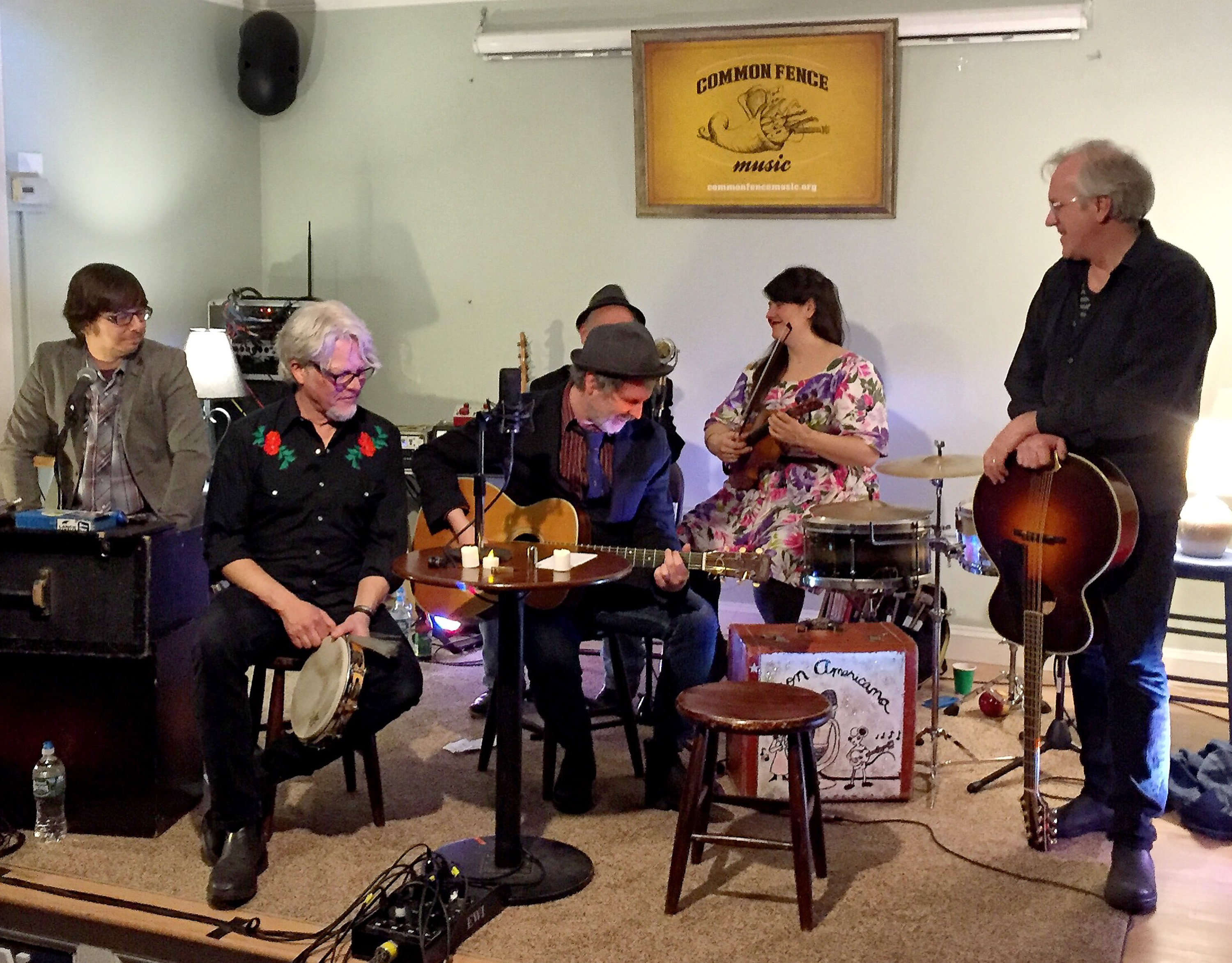 Session Americana with Laura Cortese at Common Fence Music, Portsmouth, Rhode Island in 2017